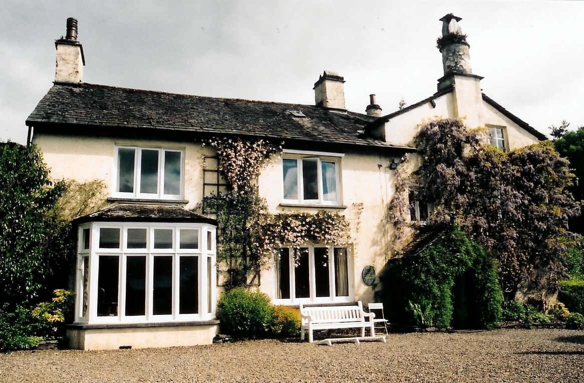 Wordsworth's House at Rydal Mount. Pic: Sourav Niyogi. Acknowledgement requested when used. Sourav Niyogi is my son. He has permitted the use of this photograph and other photographs of his in Wikipedia or elsewhere. - P.K.Niyogi 13:51, 10 August 2007 (UTC)